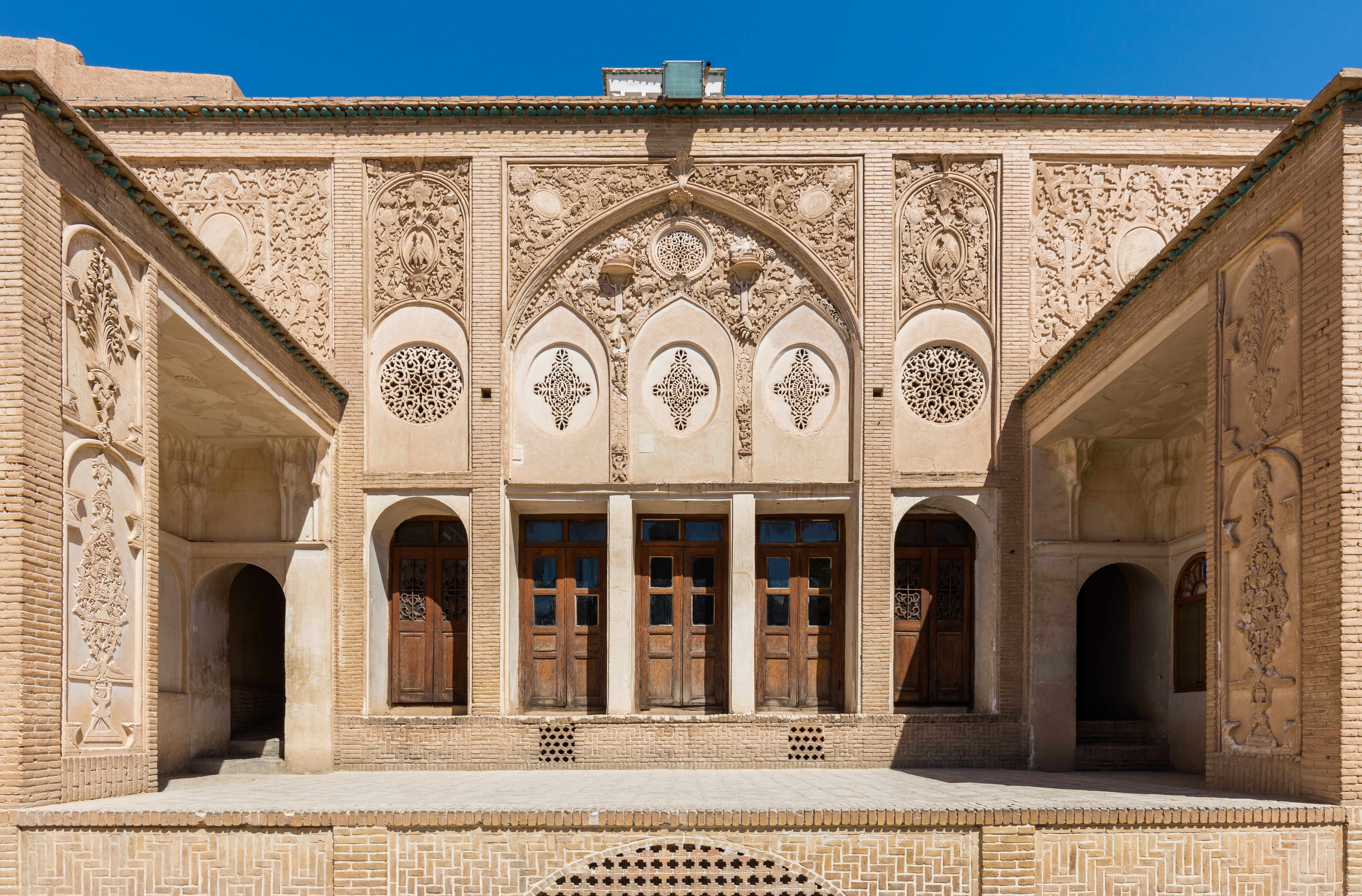 Boroujerdi Historic House, Kashan, Iran